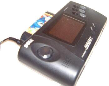 Sega Nomad handheld portable game console with a Sonic the Hedgehog game cartridge installed.